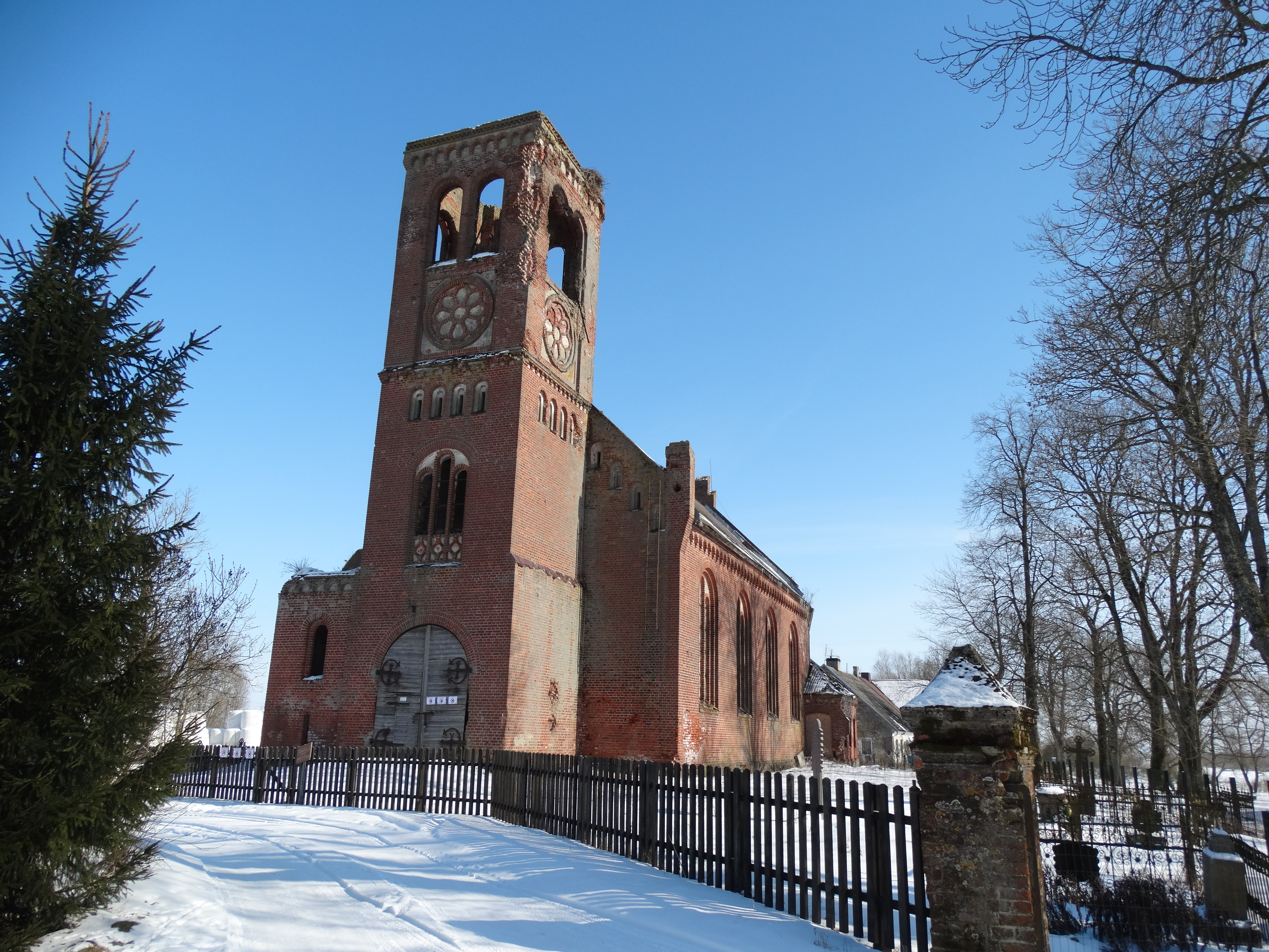 Lutheran Church, Plaškiai, Pagėgiai Municiality, Lithuania